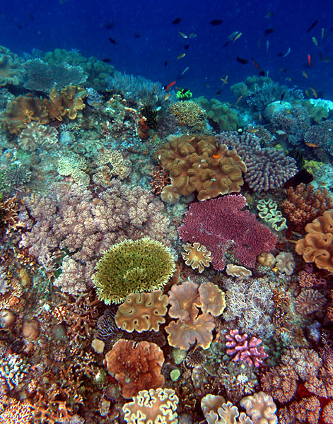 Healthy coral reef on the North coast of East Timor.